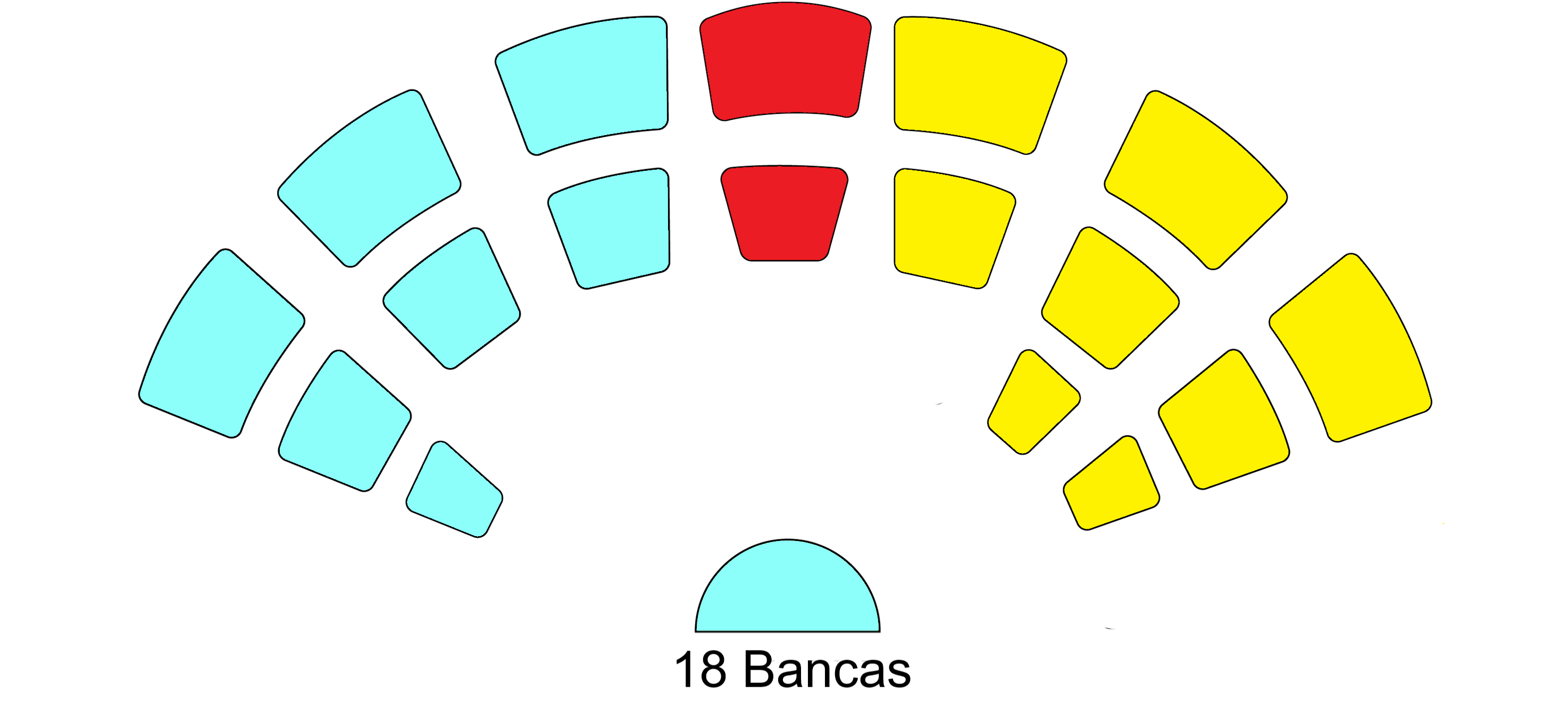 Deliberative Council of the municipality of Cañuelas